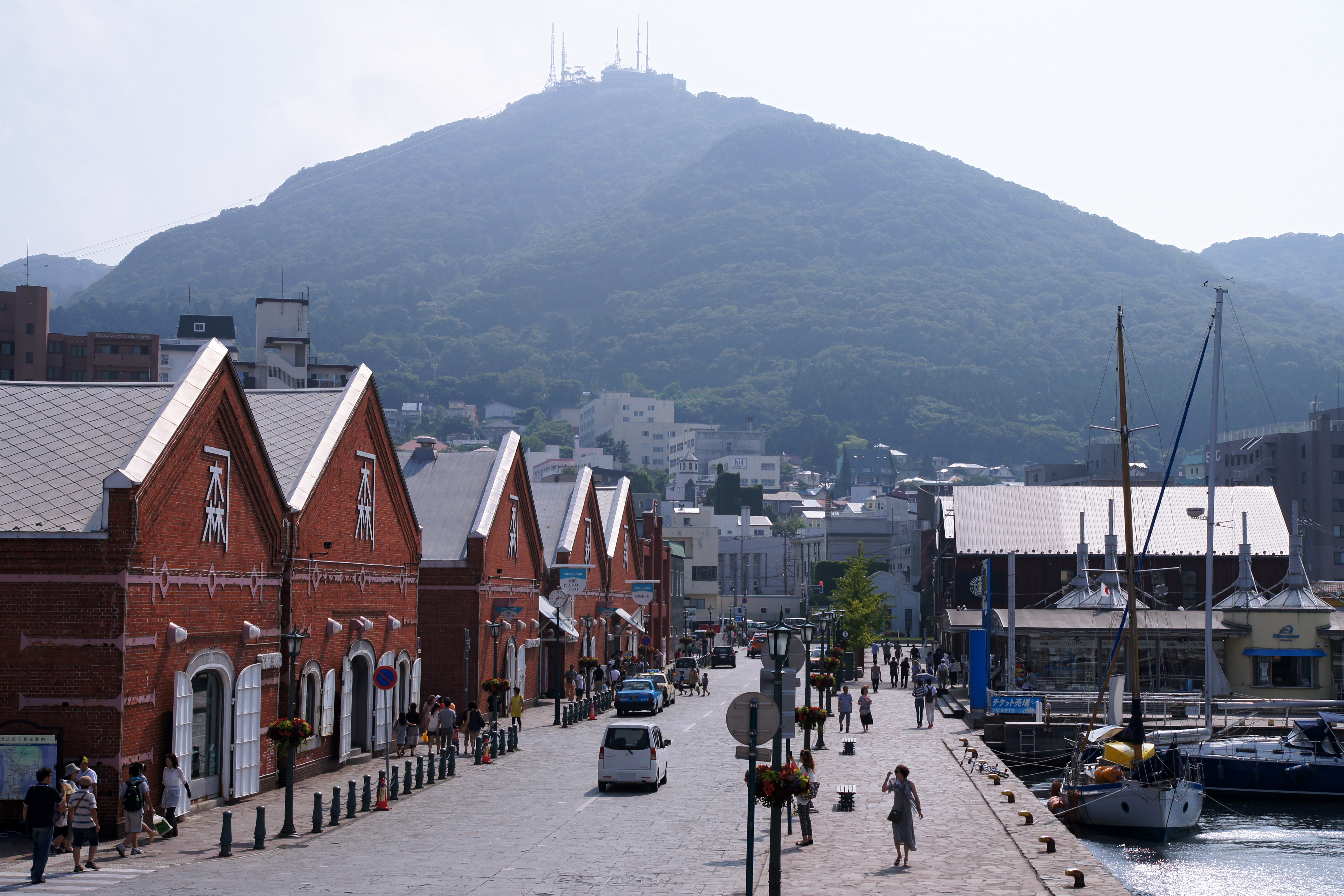 Kanemori Red Brick Warehouse, Suehirocho, Hakodate, Hokkaido prefecture, Japan